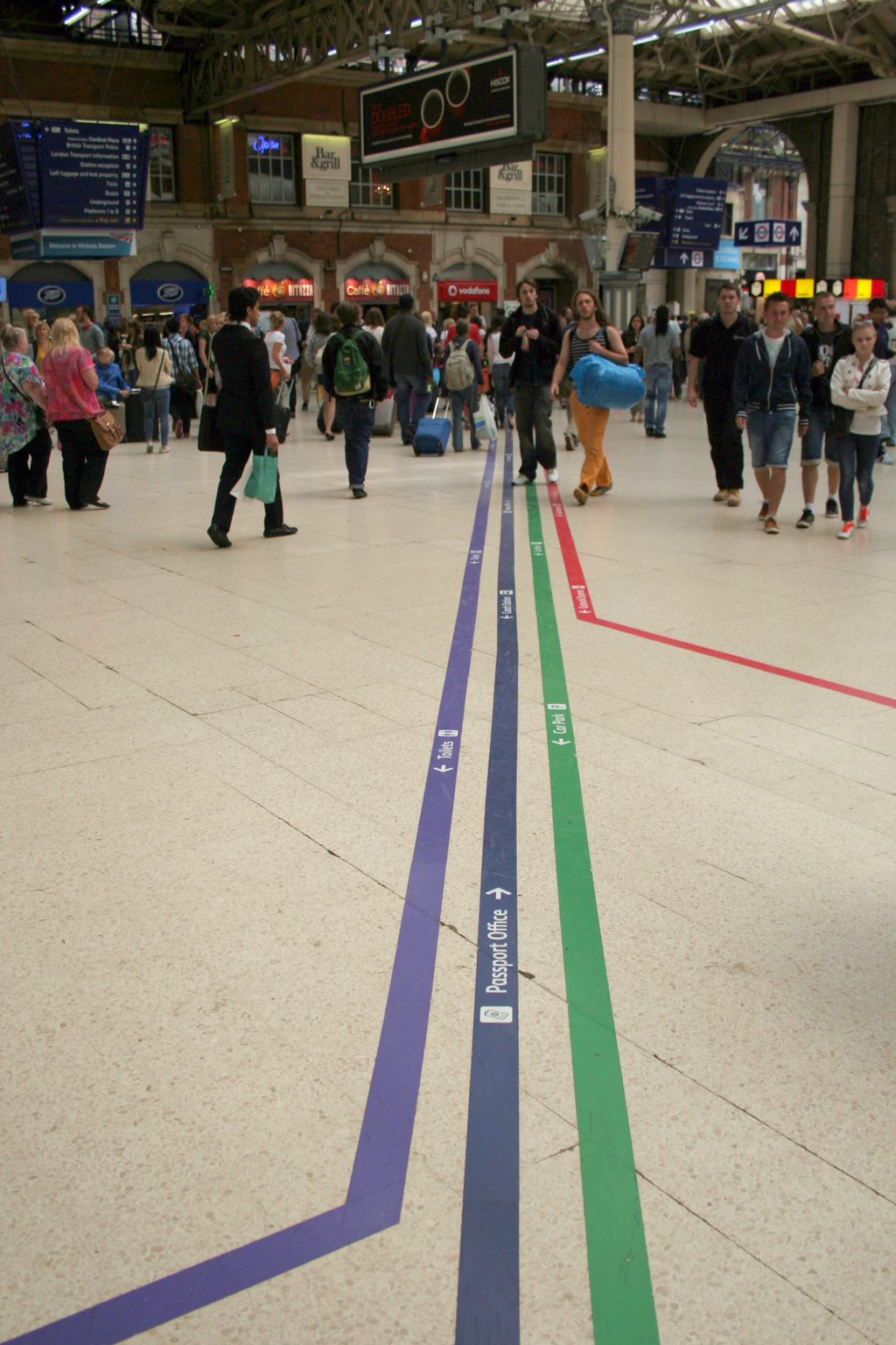 Lines on the floor of London Victoria railway station in July 2013.